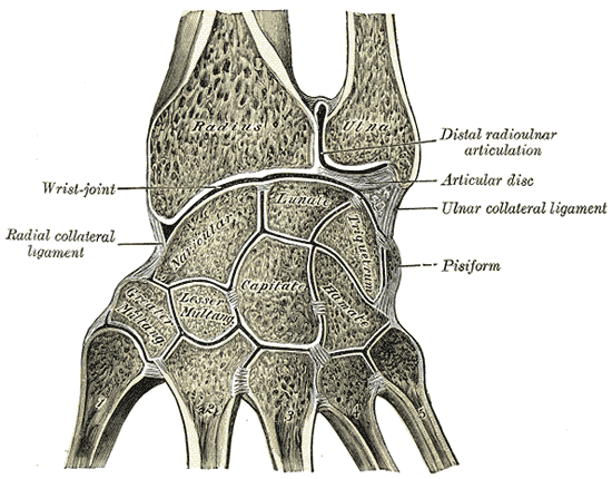 Vertical section through the articulations at the wrist, showing the synovial cavities.